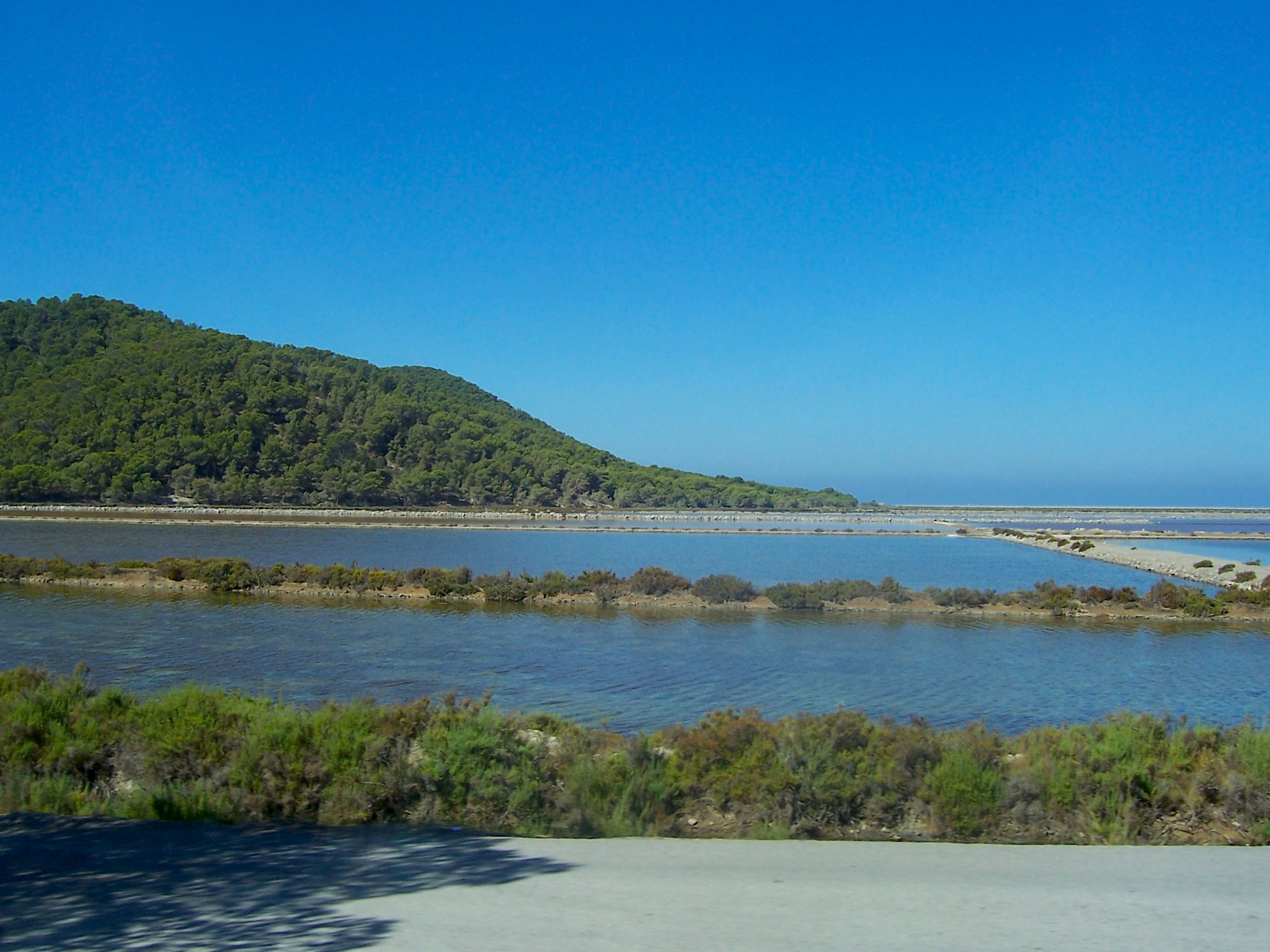 Ibiza, Ses Salines